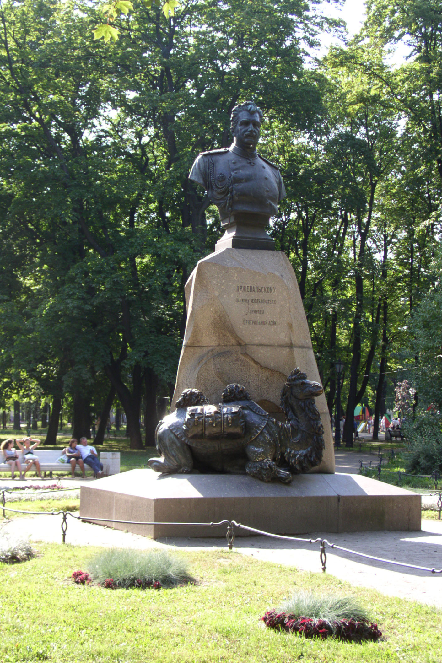 The monument to Nikolai Mikhaylovich Przhevalsky, established at the Alexander's Garden of Saint Petersburg. August 12, 2007.